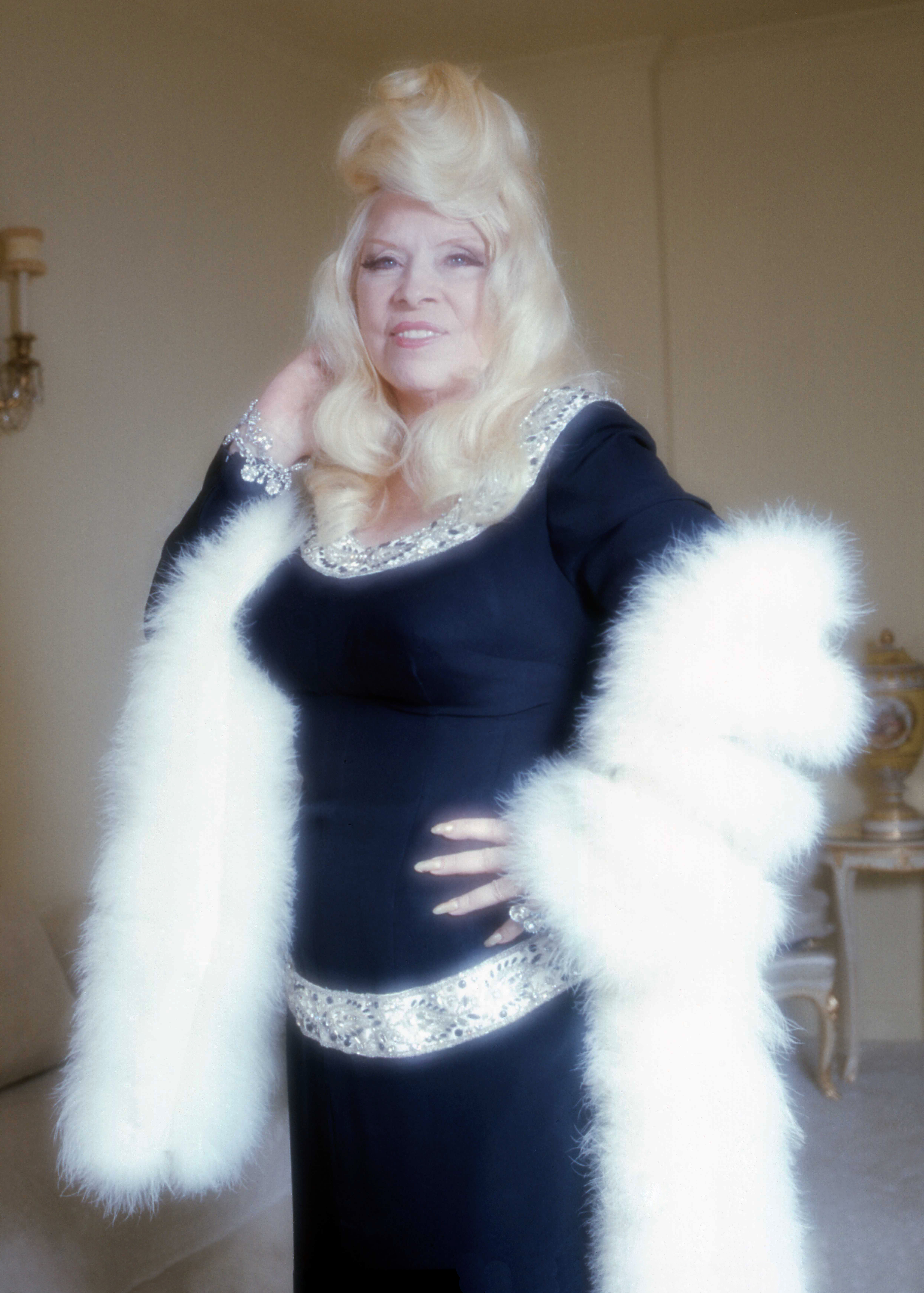 Mae West at home Ravenswood, Los Angeles